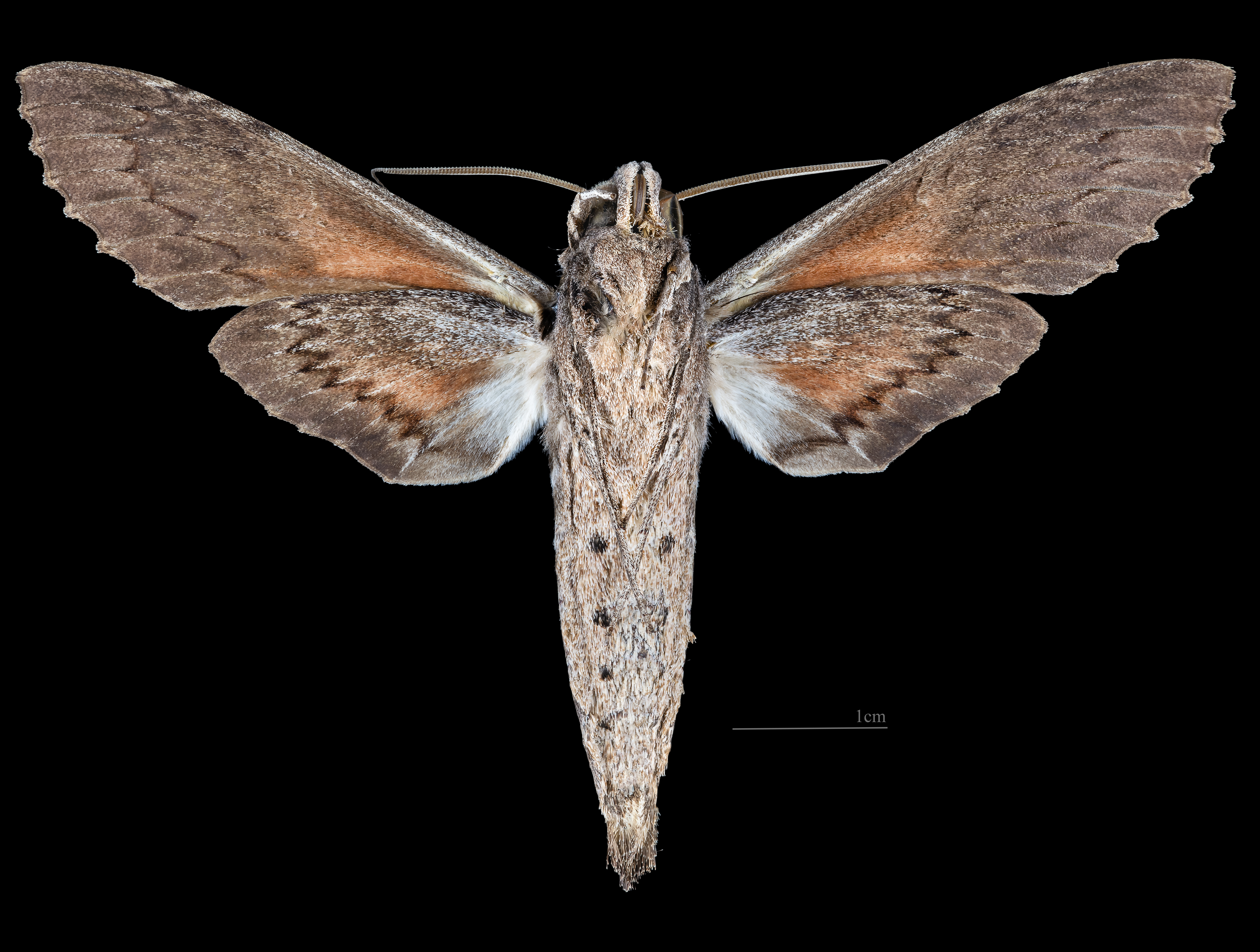 Erinnyis lassauxii - △ Ventral side Collection of the Mathematician Laurent Schwartz